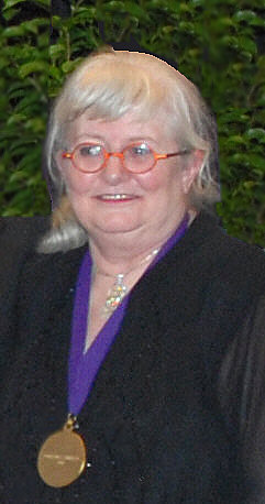 Colleen Barrett (b. 1944), president of Southwest Airlines, at the Tony Jannus Awards Banquet, Tampa, Florida.